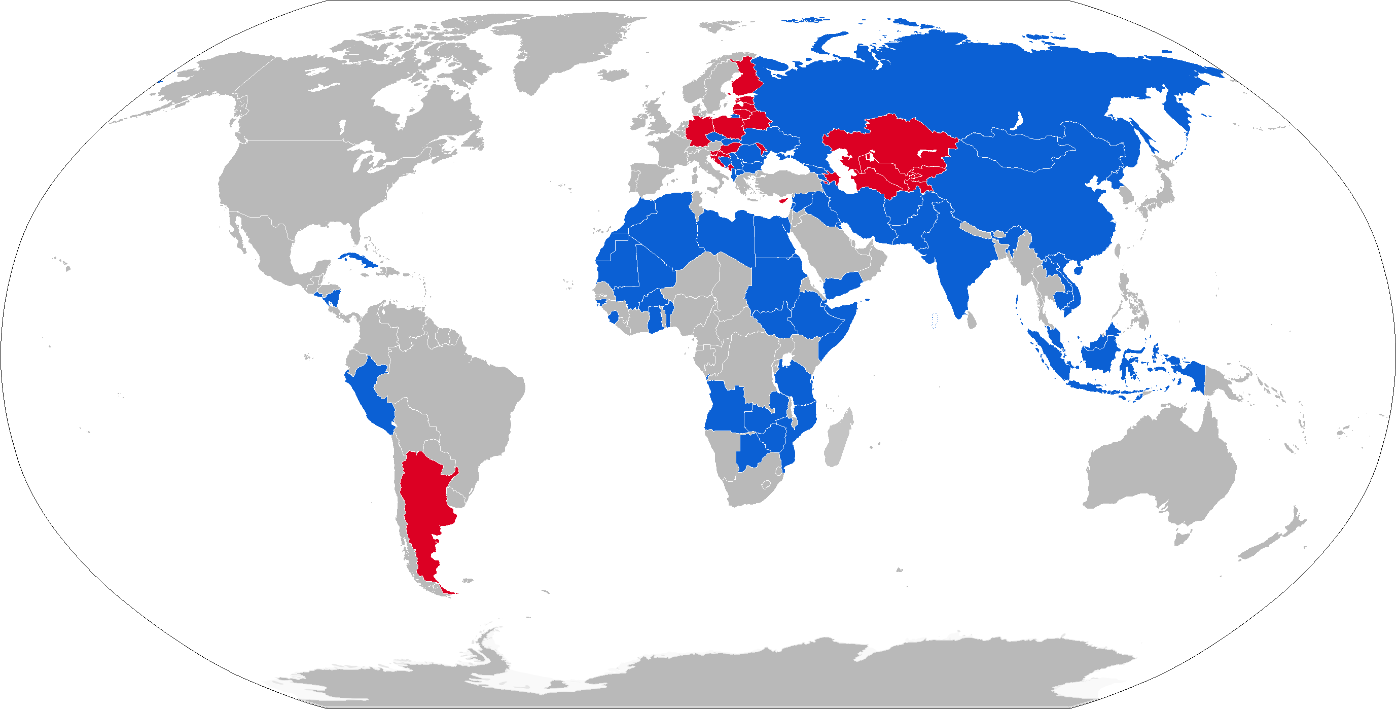 Map with 9K32 operators in blue with former operators in red